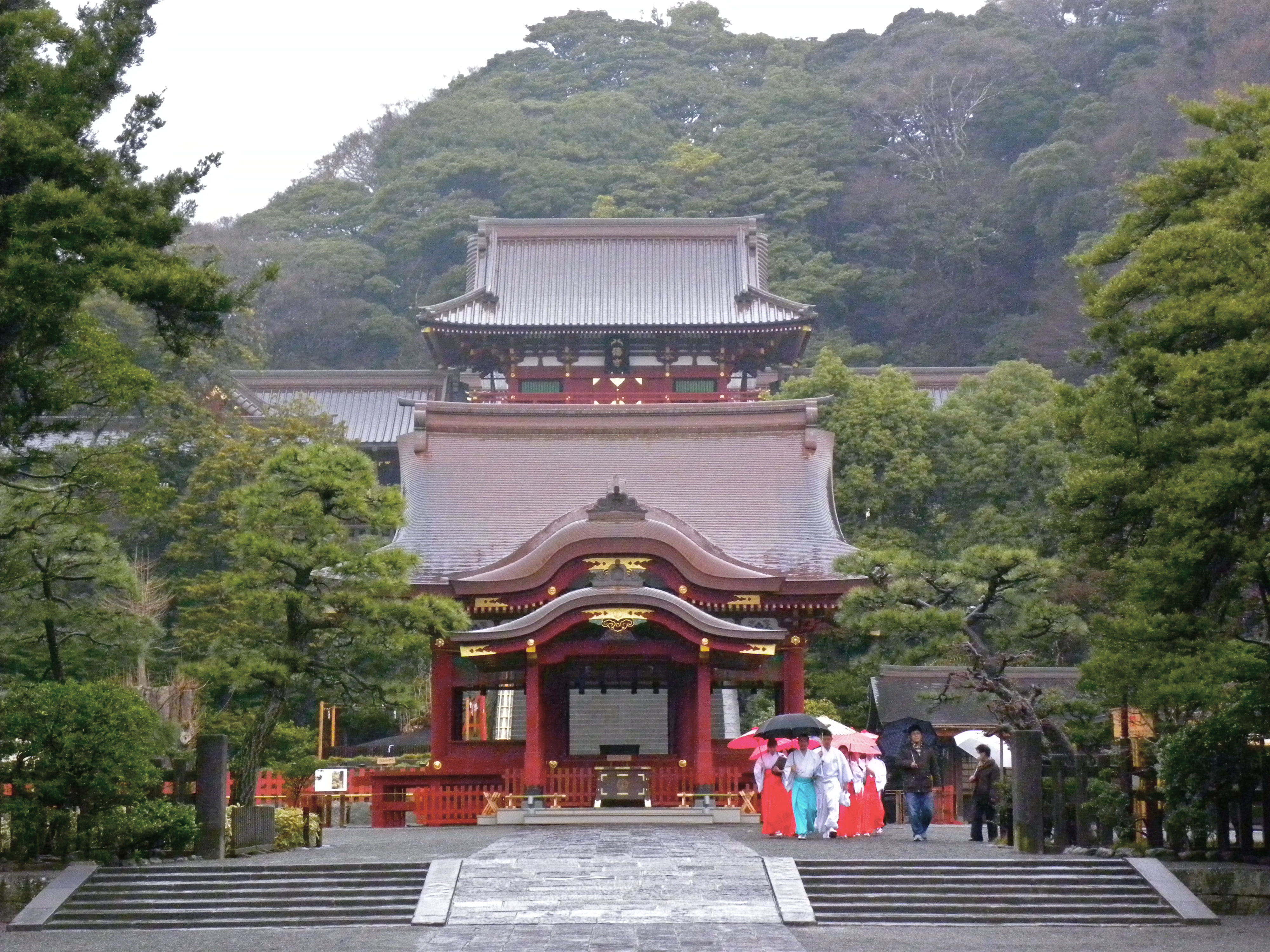 Tsurugaoka-Hachimangu Shrine, Kamakura, Japan